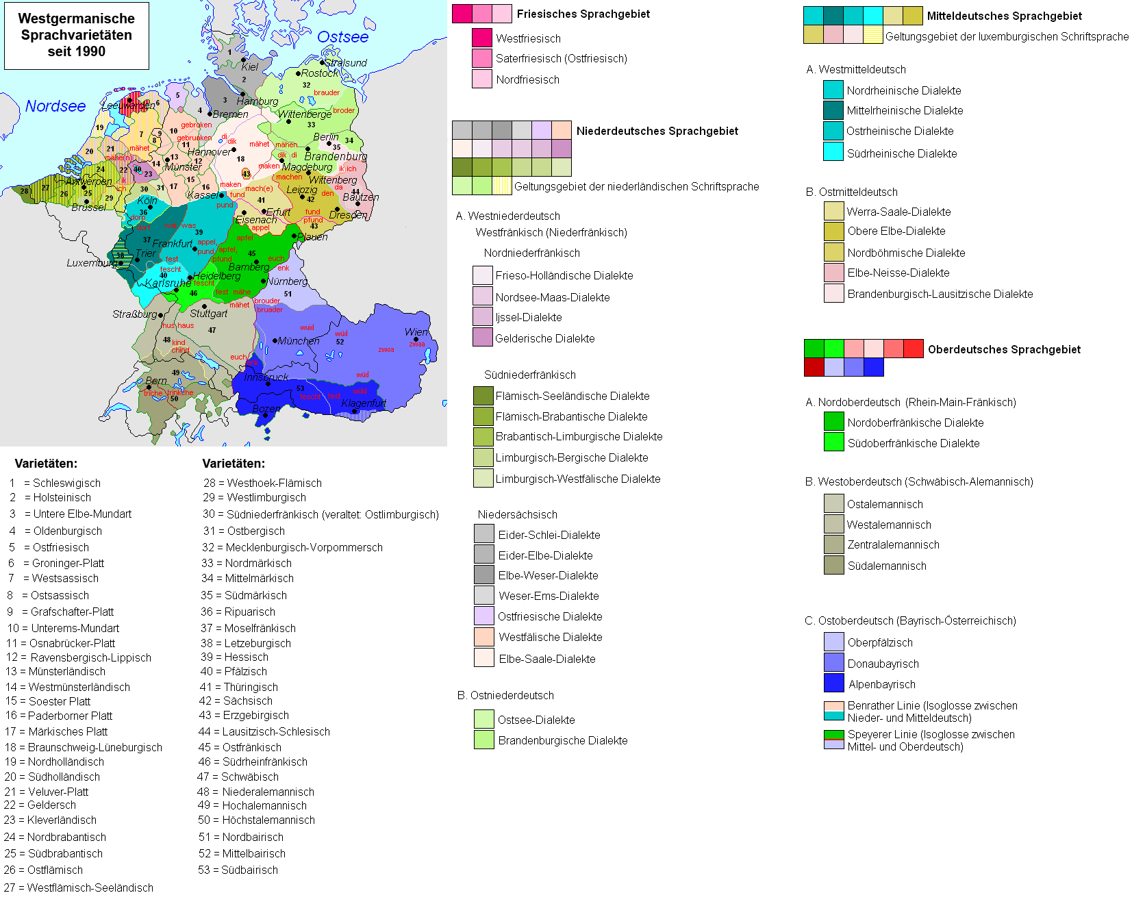 The different westgermanic language variants on the European continent (data about 1990)